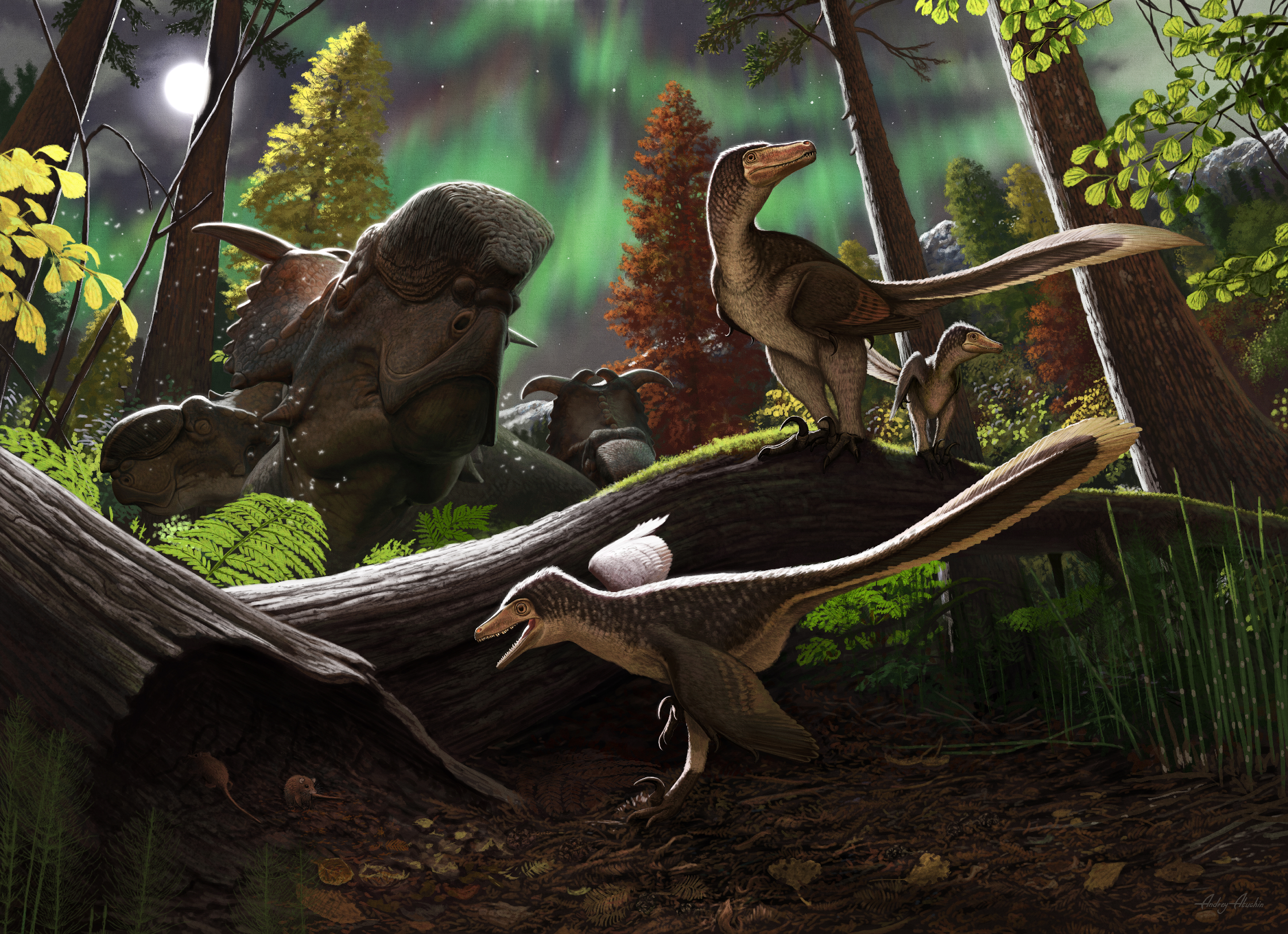 Life reconstruction of the Alaskan saurornitholestine in its environment. Artistic restoration by scientific illustrator Andrey Atuchin depicts a riparian setting in the Prince Creek Formation, matching the geological evidence described in this paper. DMNH 21183 comes from the juvenile dromaeosaurid on the branch close to the adult, while a subadult (foreground) stalks an individual of Unnuakomys hutchisoni, a methatherian known from this locality. Individuals of the sympatric ceratopsid Pachyrhinosaurus perotorum rest in the background.